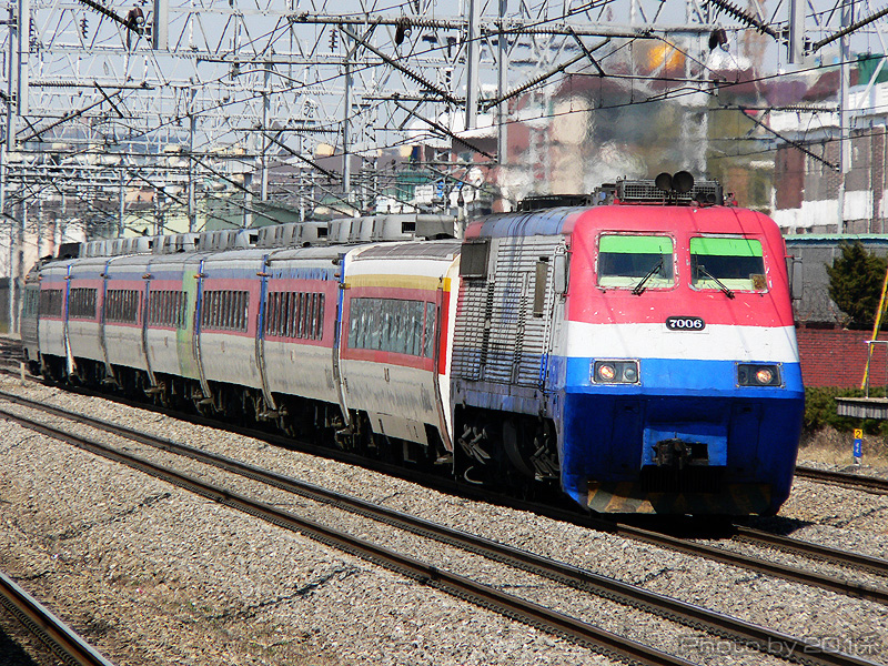 KORAIL 7000series diesel-electric locomotive